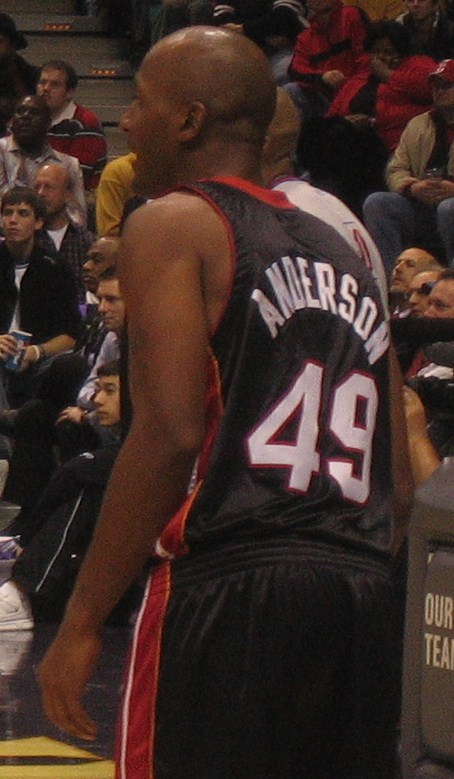 Shandon Anderson at the corner of the basketball court during the Milwaukee Bucks at Miami Heat game, 12/14/2005.